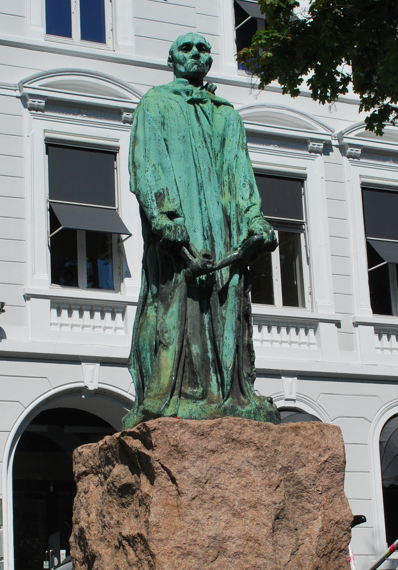 Sommerroparken, Oslo, Norway. Sculpture "Man with the key" by Auguste Rodin, from The Burghers of Calais, placed here 1902